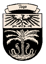 Coat of arms of German Togoland